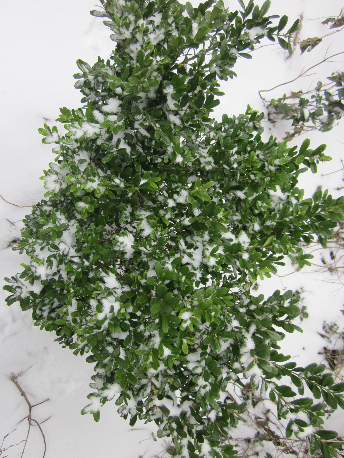 B. s. var. parvifolia